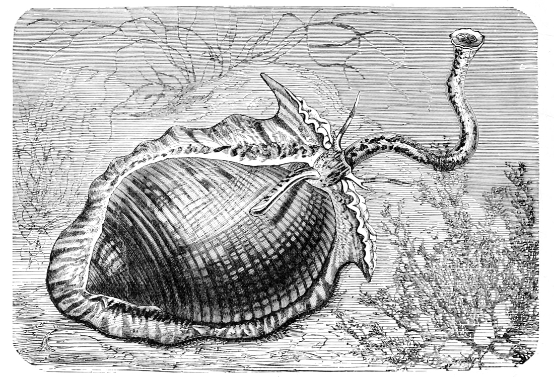 drawing of Tonna perdix